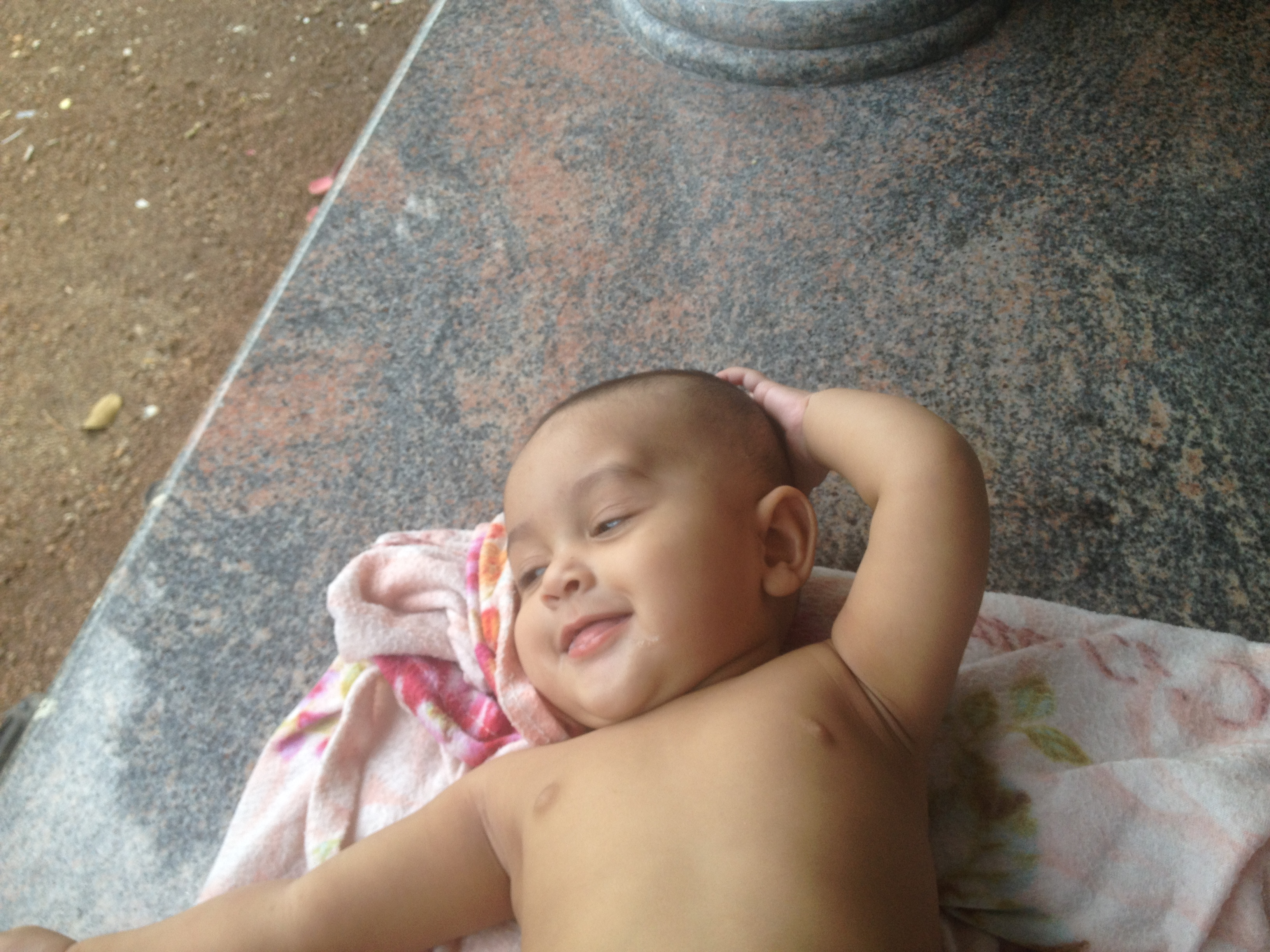 the cyst was present at birth but was not noticeable